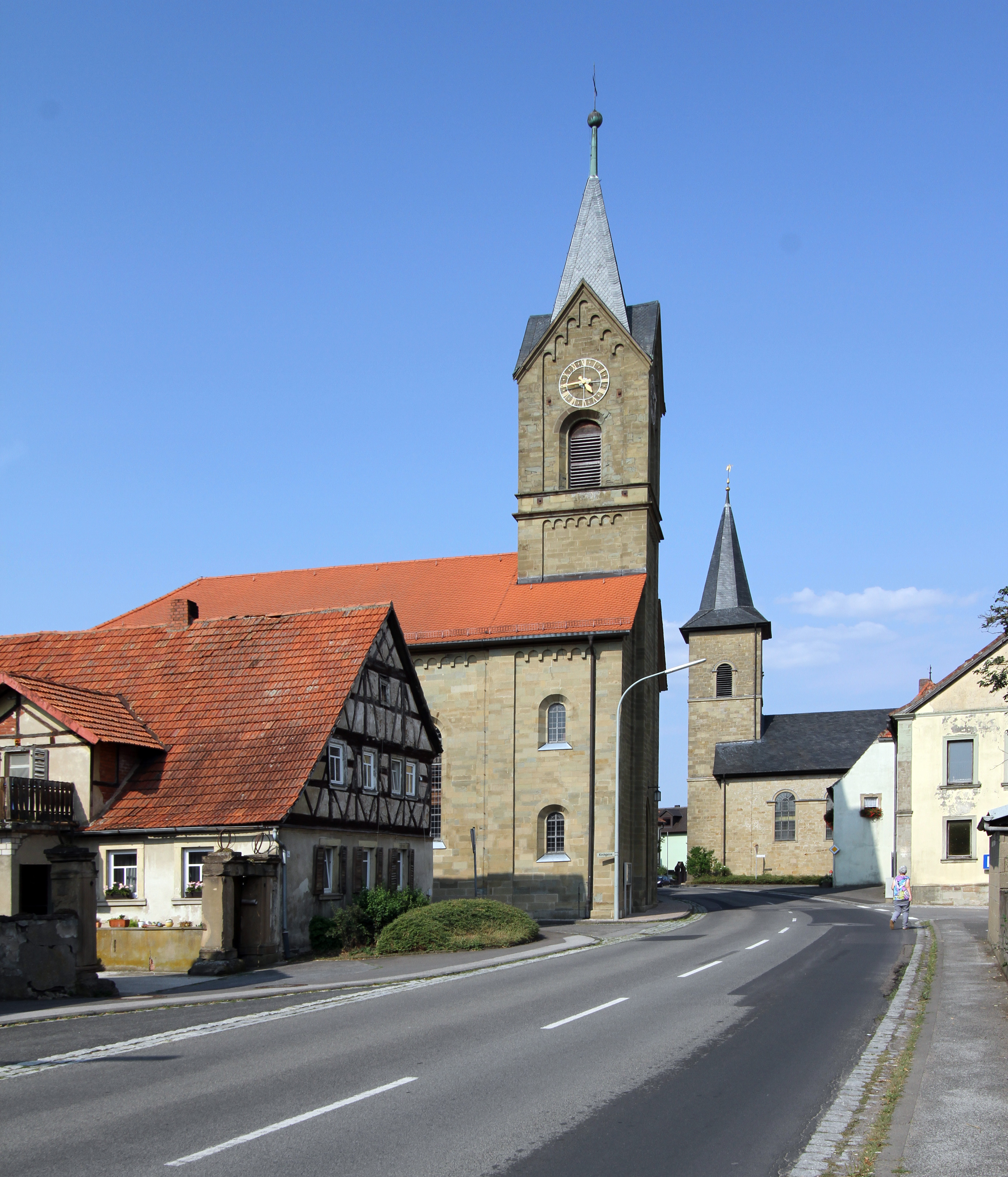 Church of St. Michael in Westheim (Knetzgau)